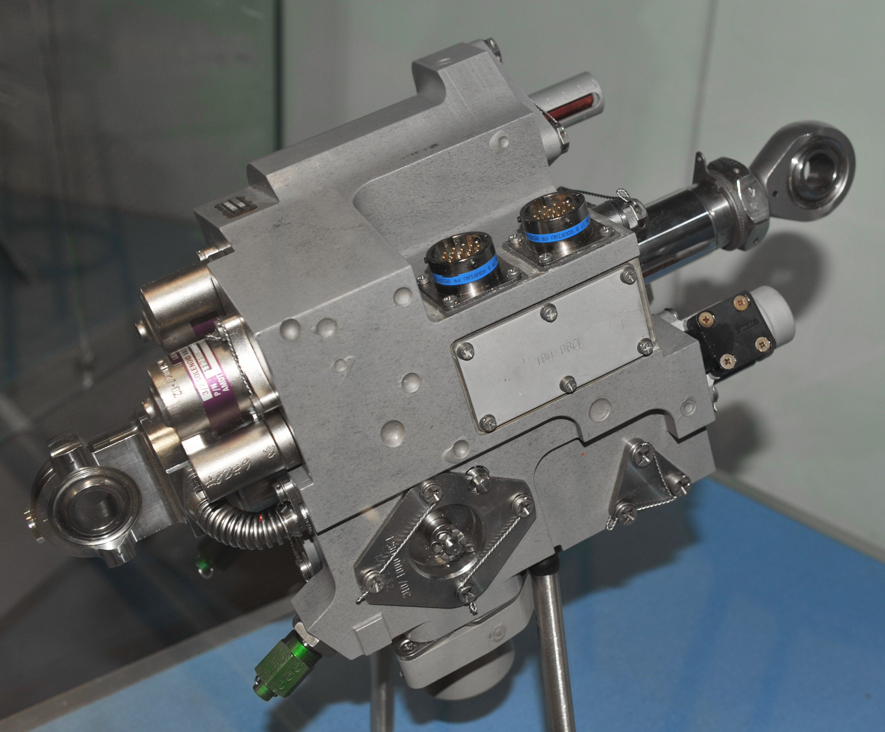 Elevator Actuator, supplier Liebherr Aerospace Lindenberg (presented on an exhibition at Airport Bremen) Electrical control input hydraulic supply: 206 bar (3000 psi) maximum force: 17.5 kN (3934 lbf) maximum deflection rate: 40 deg/s weight: 9.9 kg (21.8 lb)